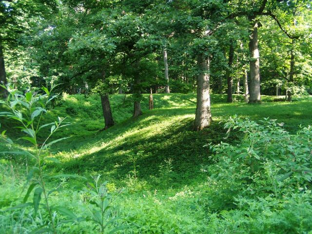 Mounds SP, Indiana, surrounding ditch.